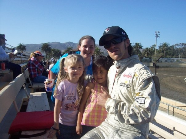 James Bondurant at a Sprint race in Ventura CA